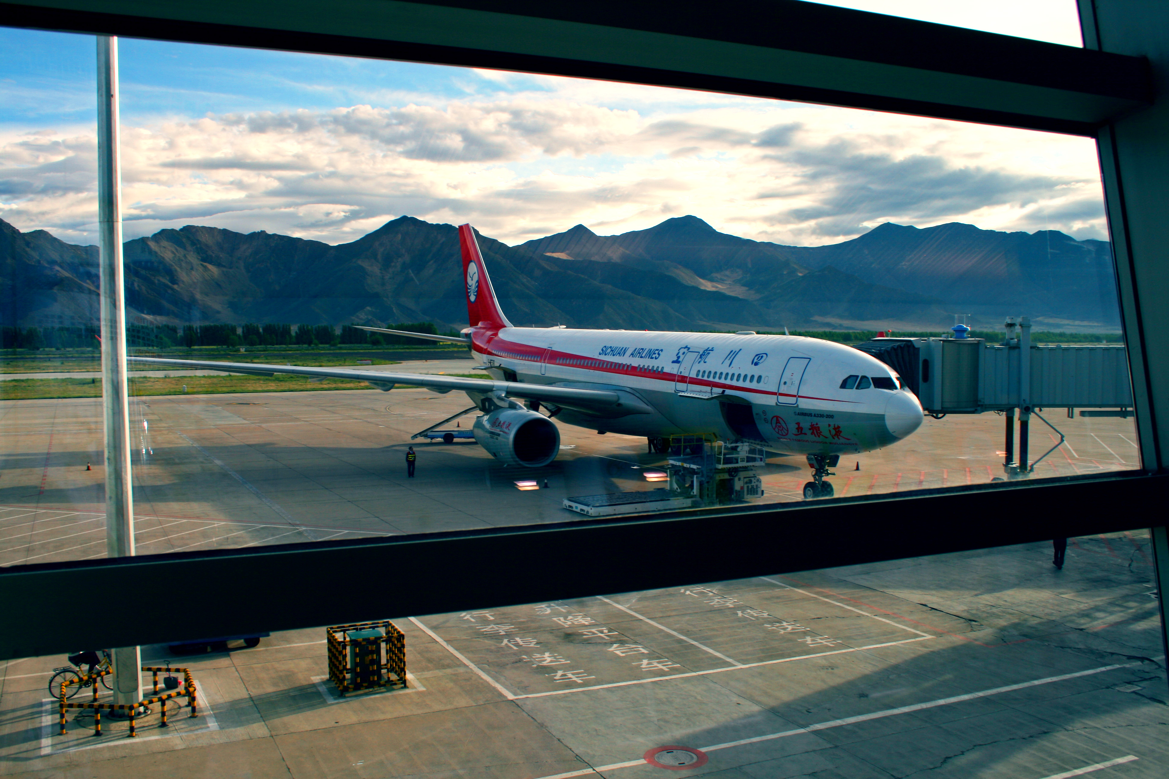 A Sichuan Airlines Airbus A330 in Gonggar Airport. This plane is paint as "Wuliangye Hao", which is the name of the famous Sichuanese wine. The same plane flew the first voyage to Vancouver and Melborne.